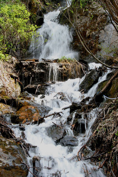 It was very close to our camp from which our water supply was assured through the rubber pipes. One of the main requirement of a camp site is an assured water supply. Taken at Fual Pani (9500 ft.) during Sar Pass Trek in Kullu District of Himachal Pradesh, India.